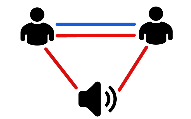 Red edges describe interest graph. Relations can be between man and interest and between people. Blue edges describe social graph. Relations can be only betwen people.